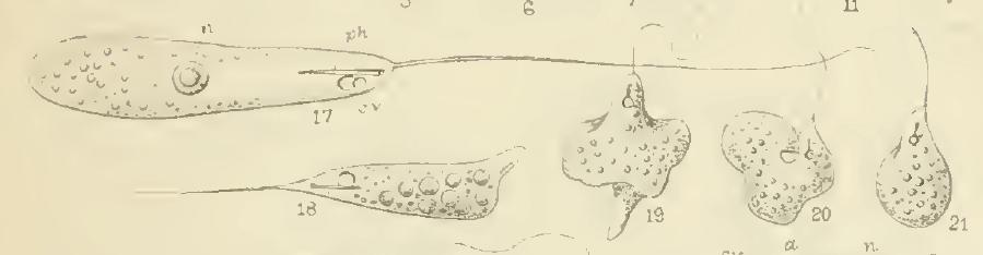 Peranema, as depicted in William Saville-Kent's A Manual of the Infusoria, showing the "rod-organ."